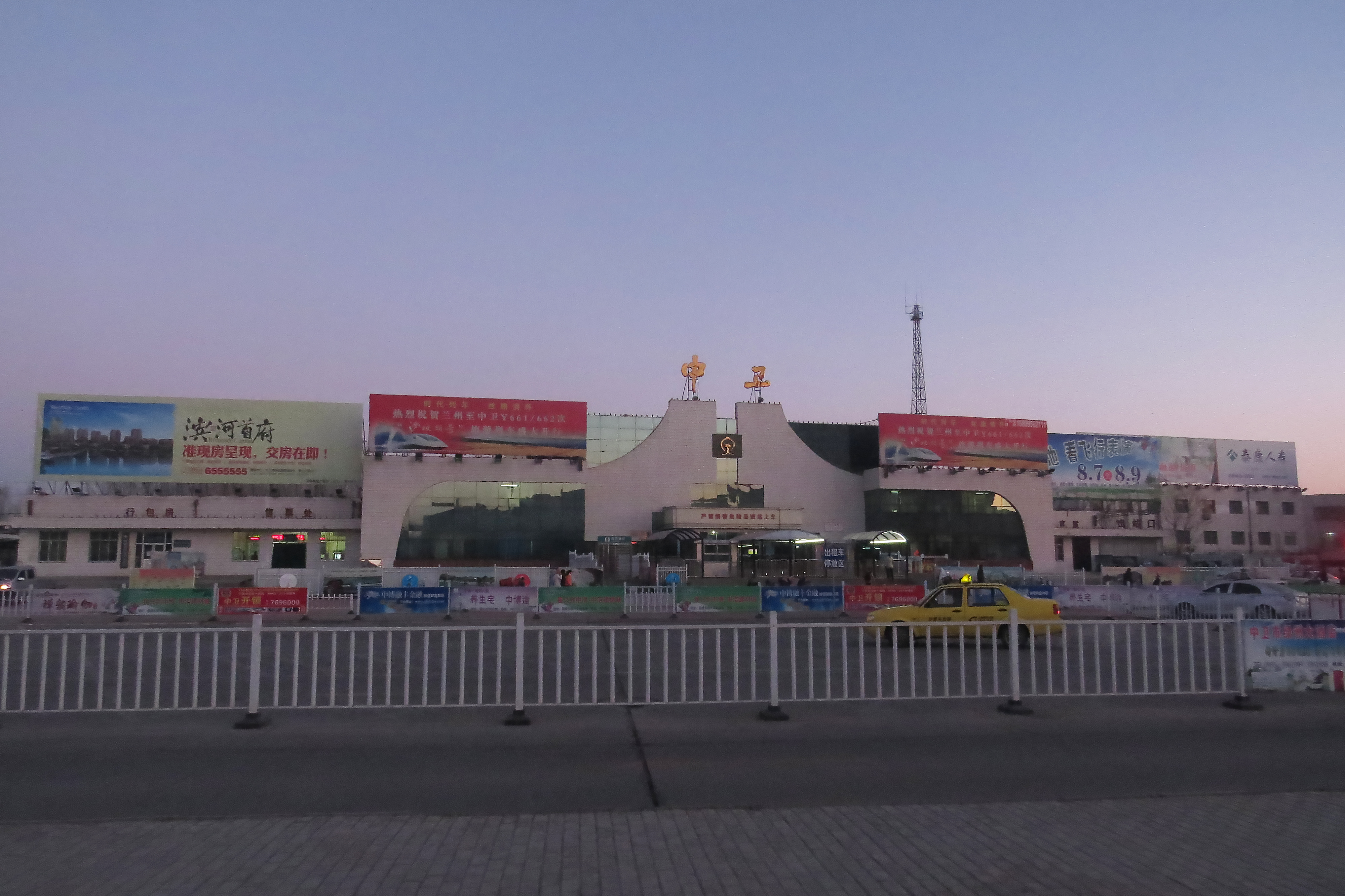 The sunrise is later than Beijing.